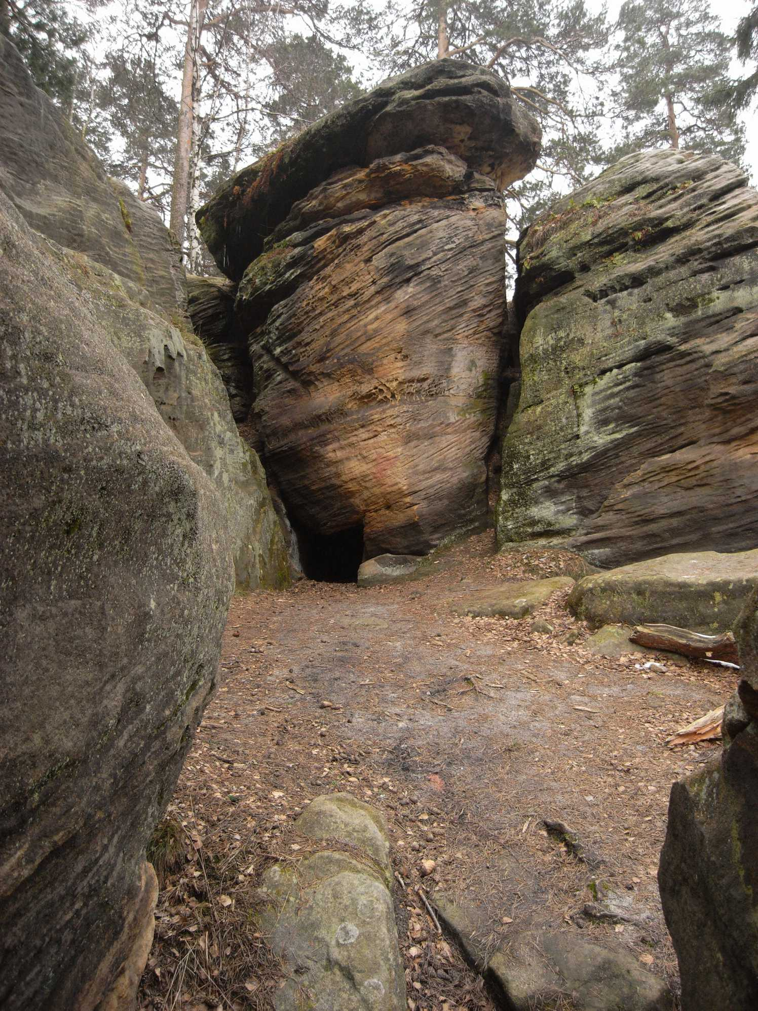 Heath of Dippoldiswalde (Dippoldiswalder Heide), rock Einsiedlerstein (sandstone)